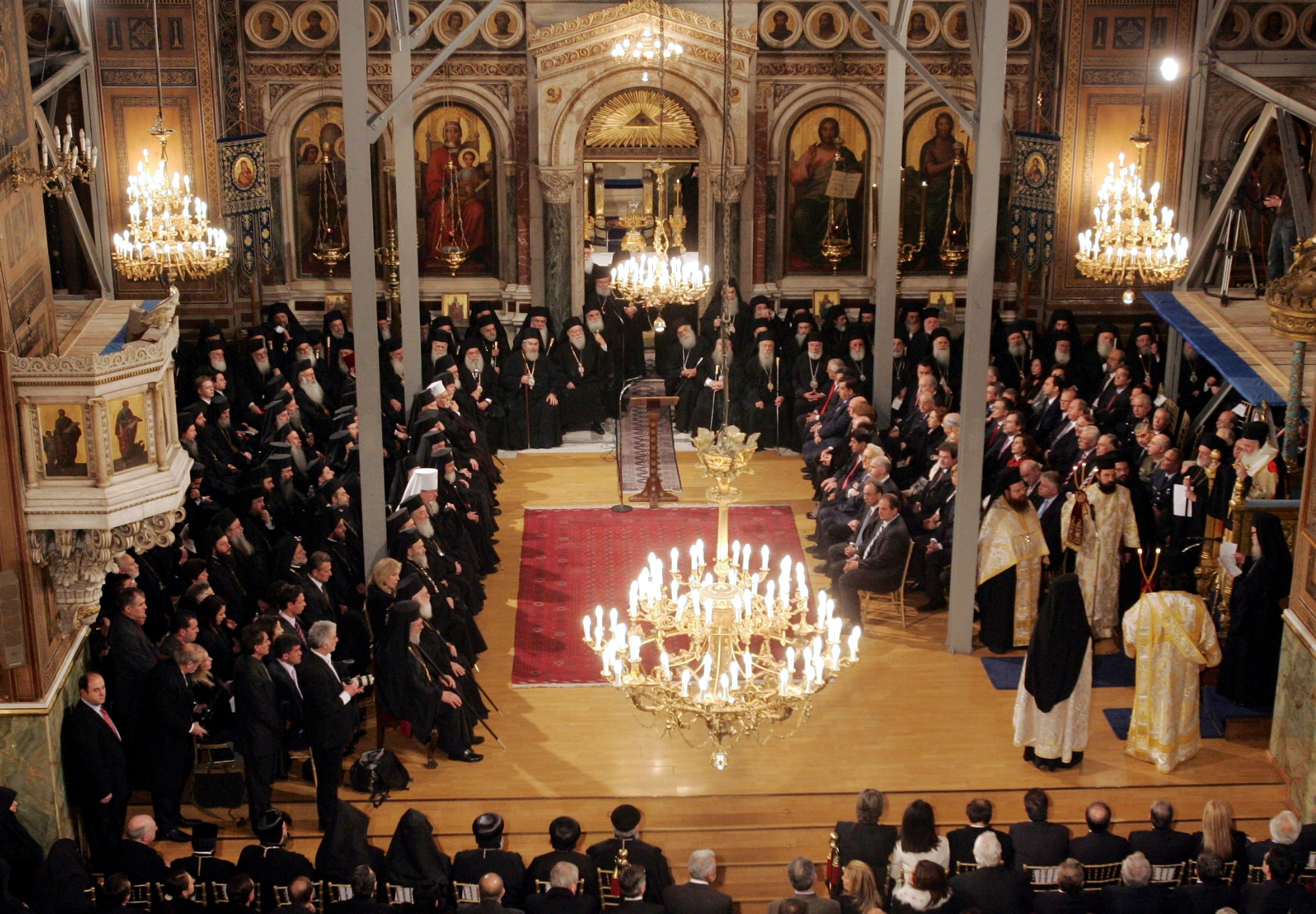 The enthronement ceremony of Archbishop Ieronymos II of Athens at the Metropolitan Cathedral of Athens.